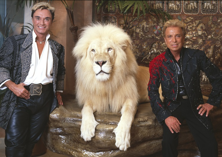 Roy Horn and Siegfried Fischbacher with their white lion by Carol M. Highsmith